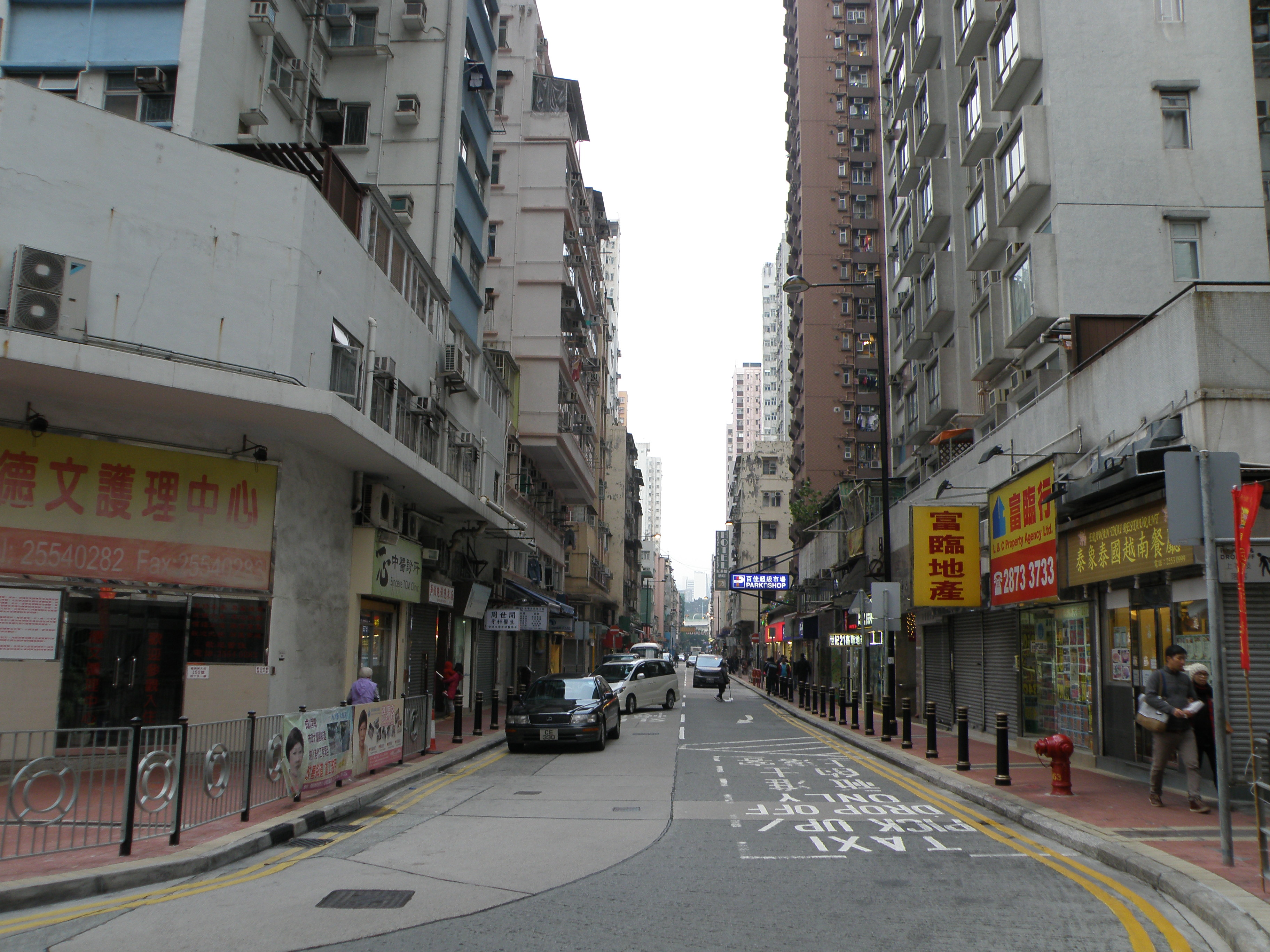 Main Street in Ap Lei Chau, Hong Kong.